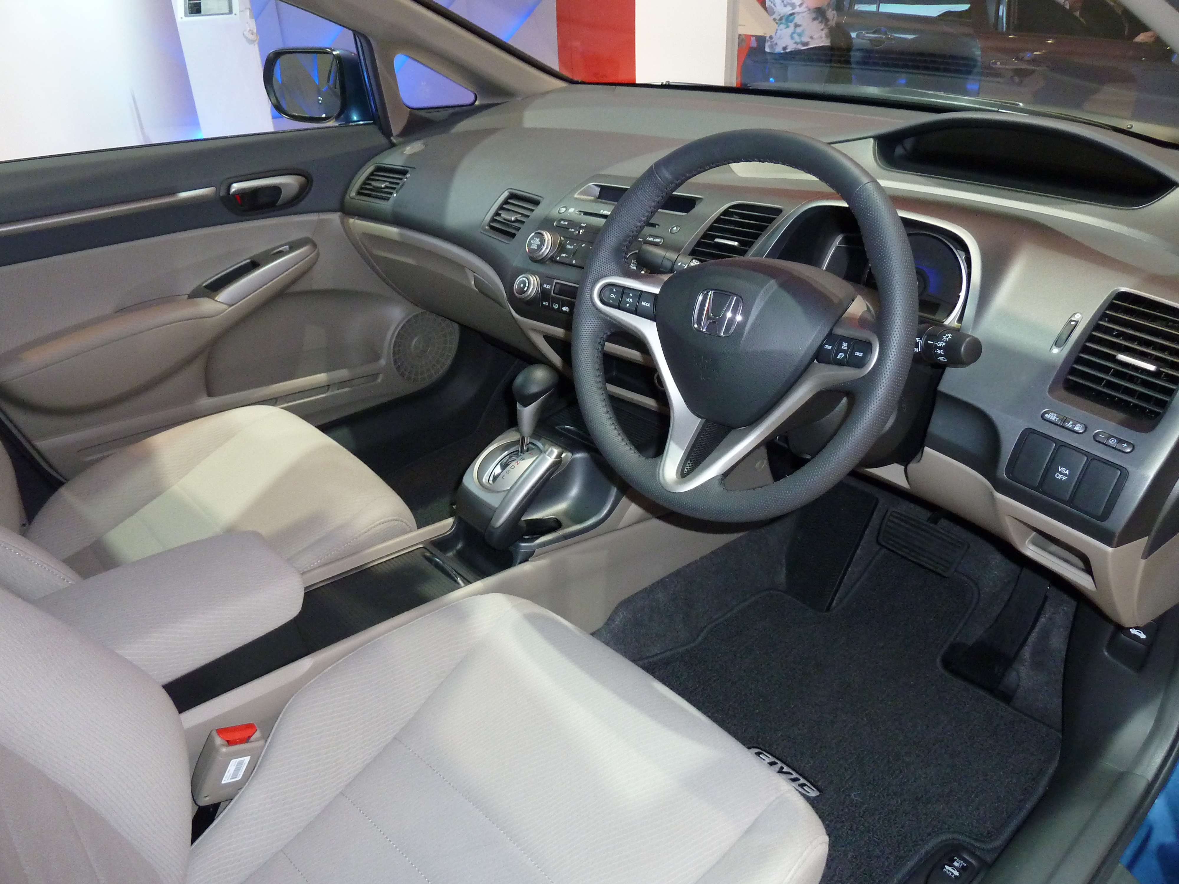 2010 Honda Civic Hybrid sedan. Photographed at the 2010 Australian International Motor Show, Sydney, New South Wales, Australia.